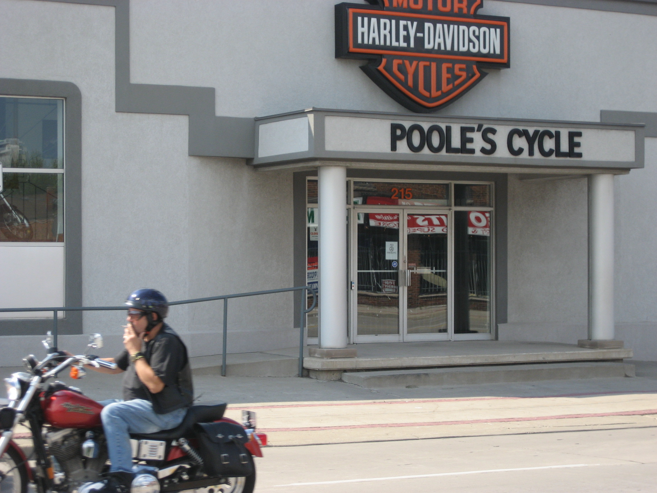 Harley-Davidson Motor Cycles dealorship, Parkdale Avenue North, Hamilton, Canada.